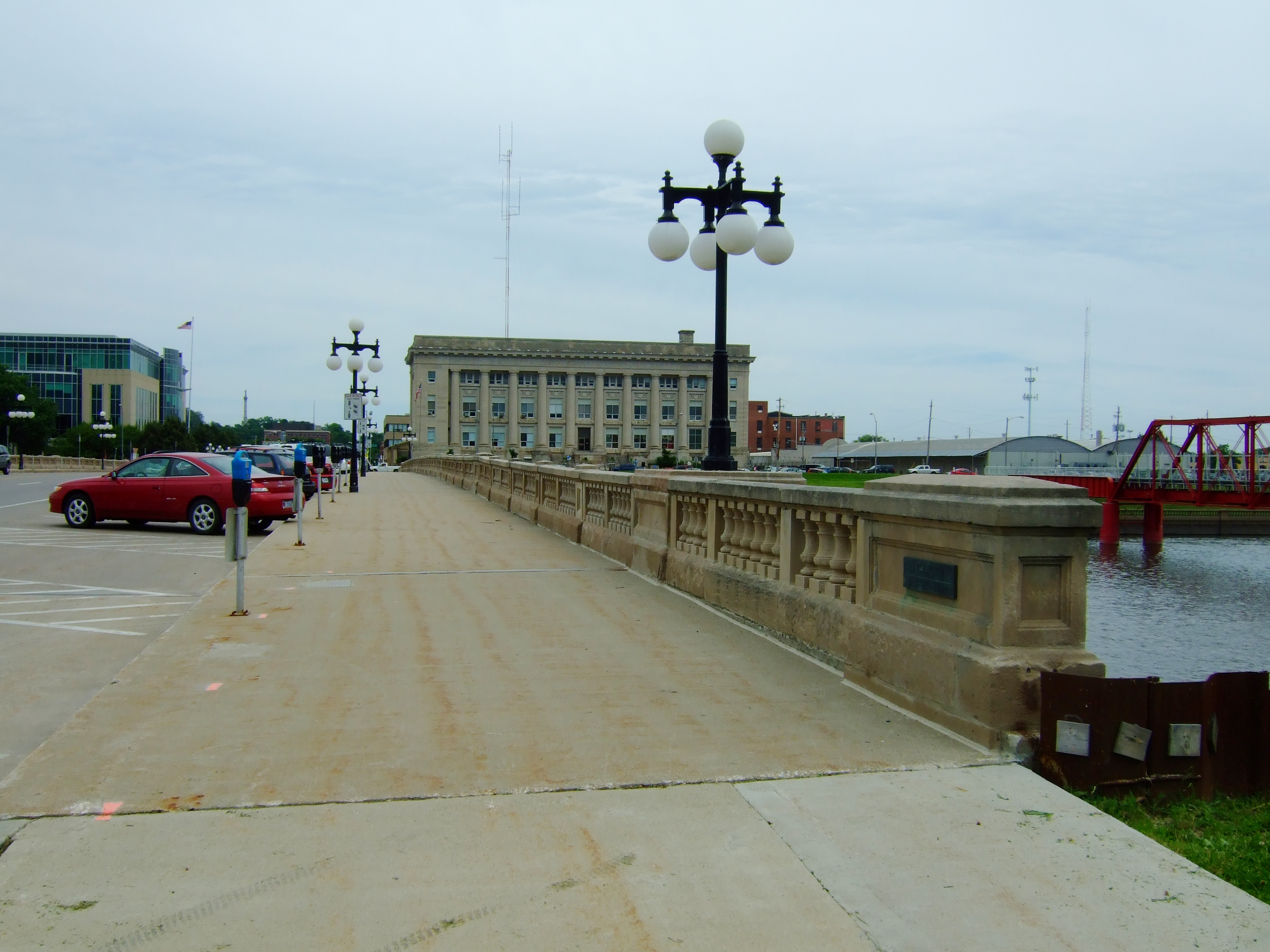 Court Avenue Bridge (1917, reconstructed 1982) in Des Moines, Iowa. Added to the National Register of Historic Places in 1998.